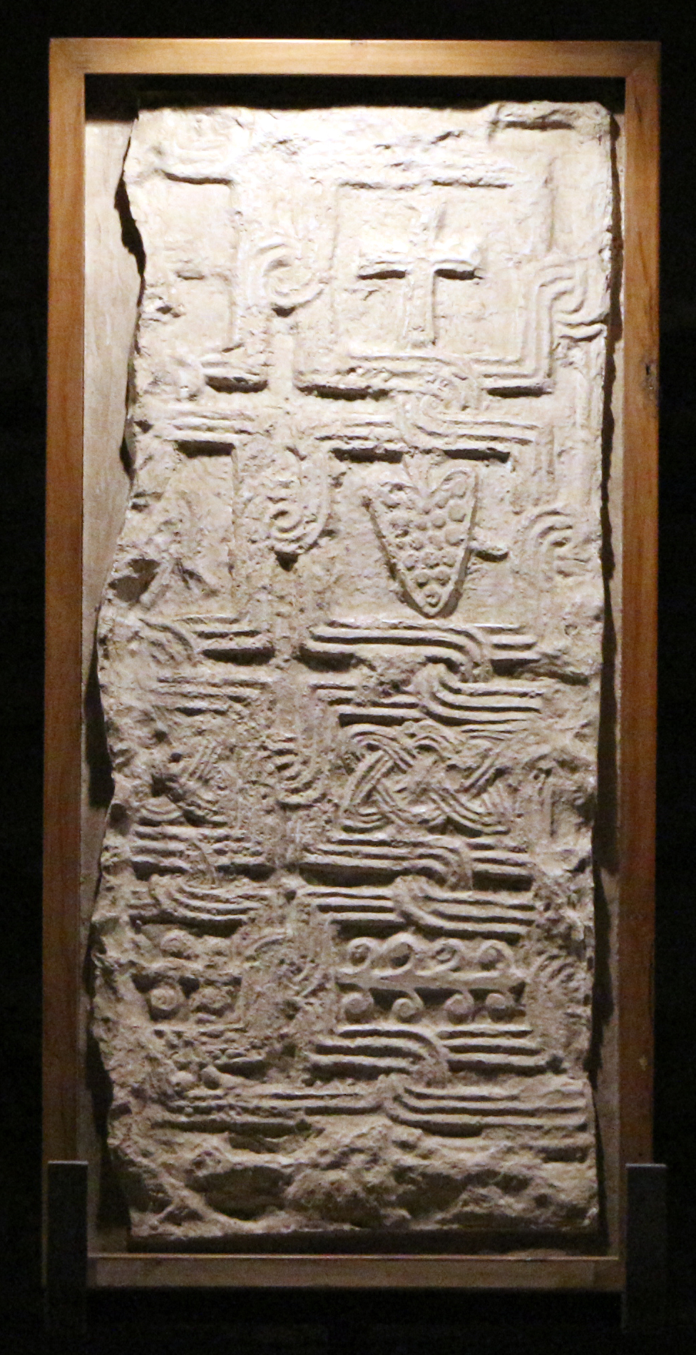 Santa Reparata (Florence)